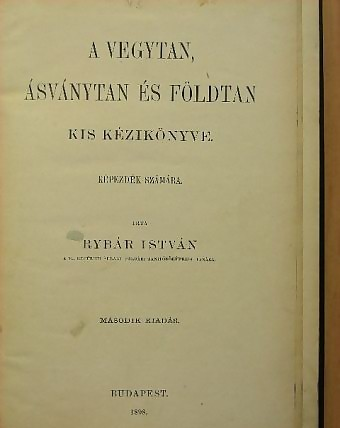 Rybár book